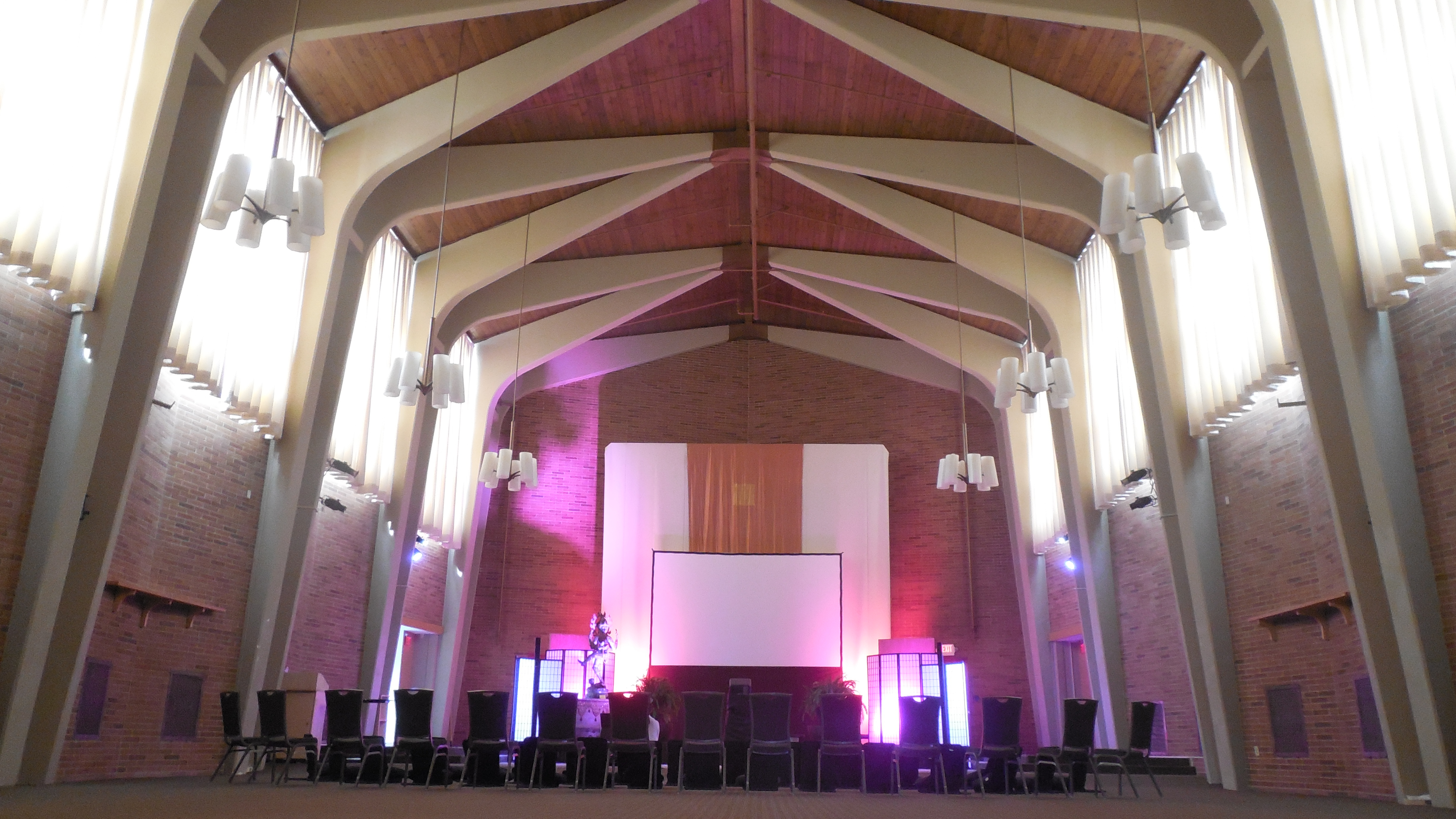 Main Hall of the Kripalu Center for Yoga & Health, Stockbridge, Massachusetts, Feb 2016